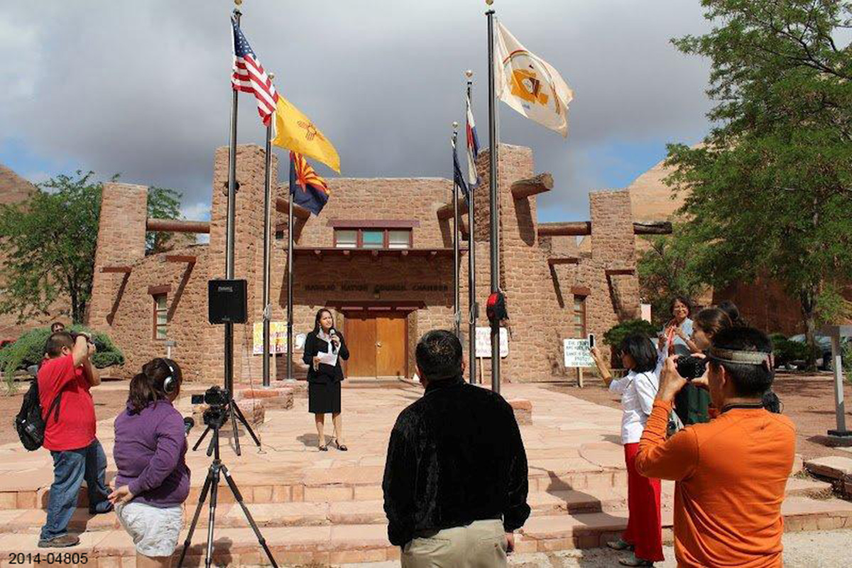 Flags Flying during Council Session.